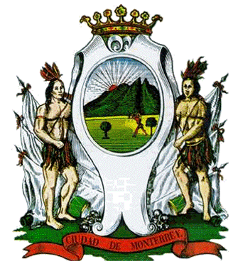 The Coat of Arms of the City of Monterrey, Nuevo León, Mexico